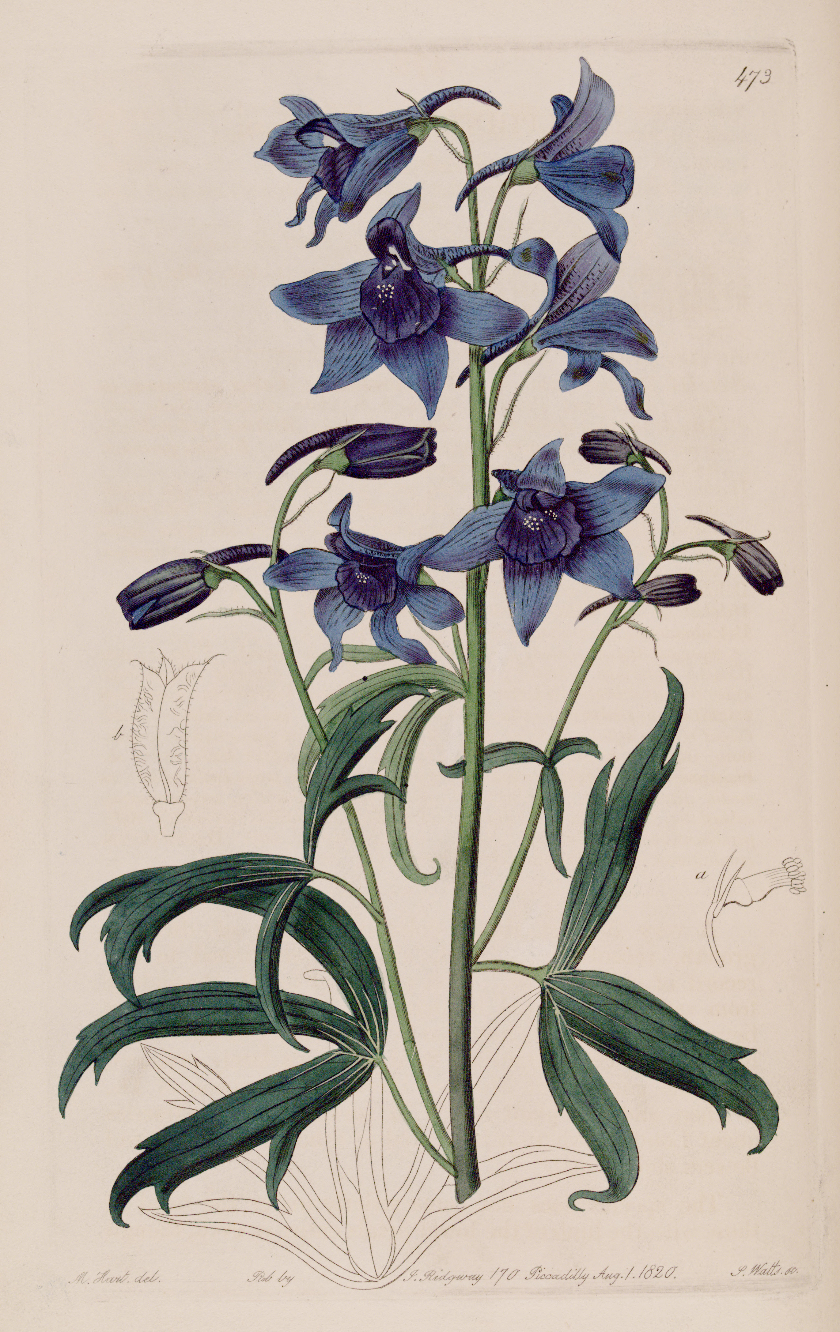 Illustration of Delphinium cheilanthum (Doroninsk Larkspur) The Botanical Register